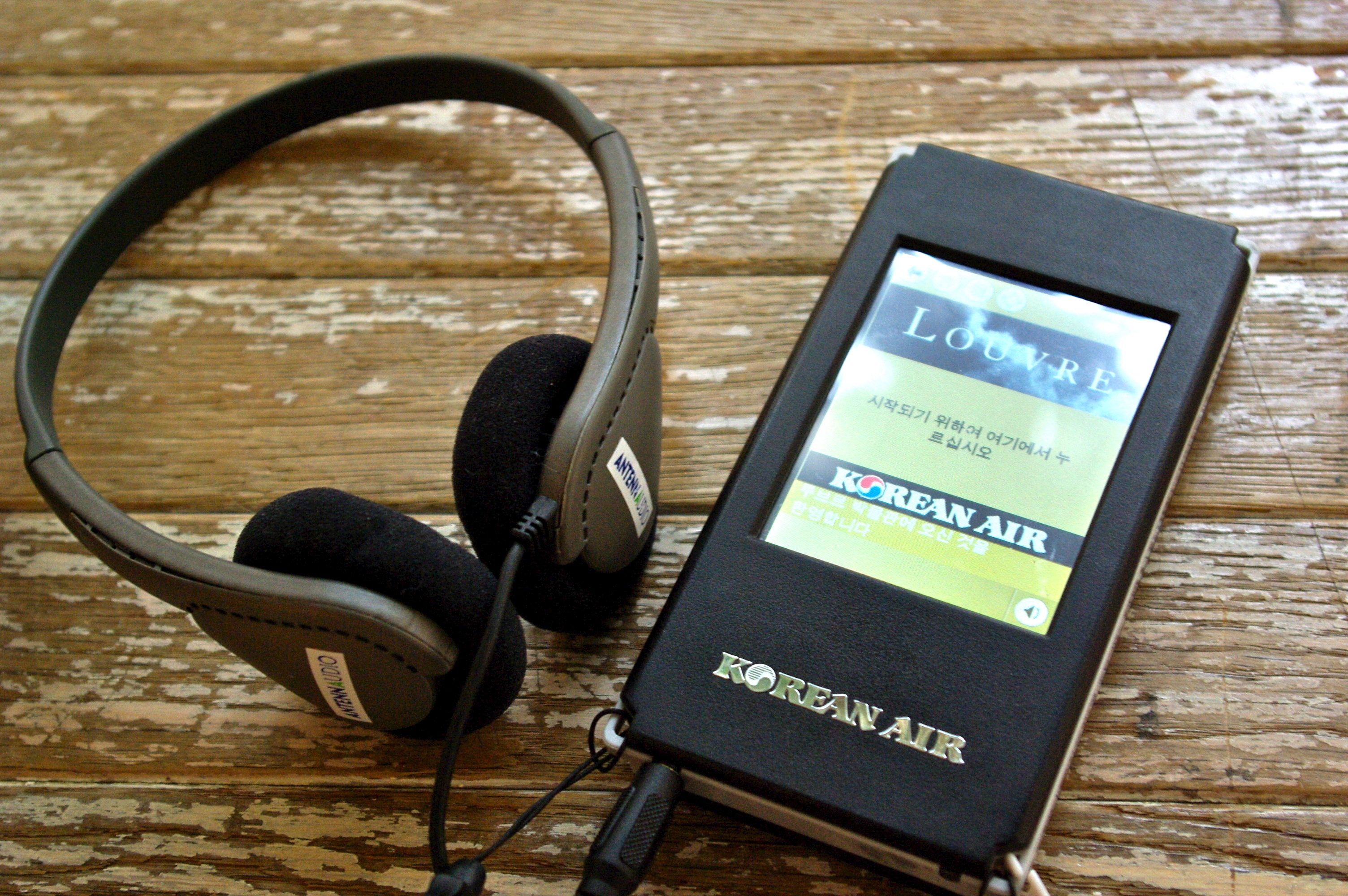 Korean-supporting Audio tour set for tourists visiting the Louvre, Paris.